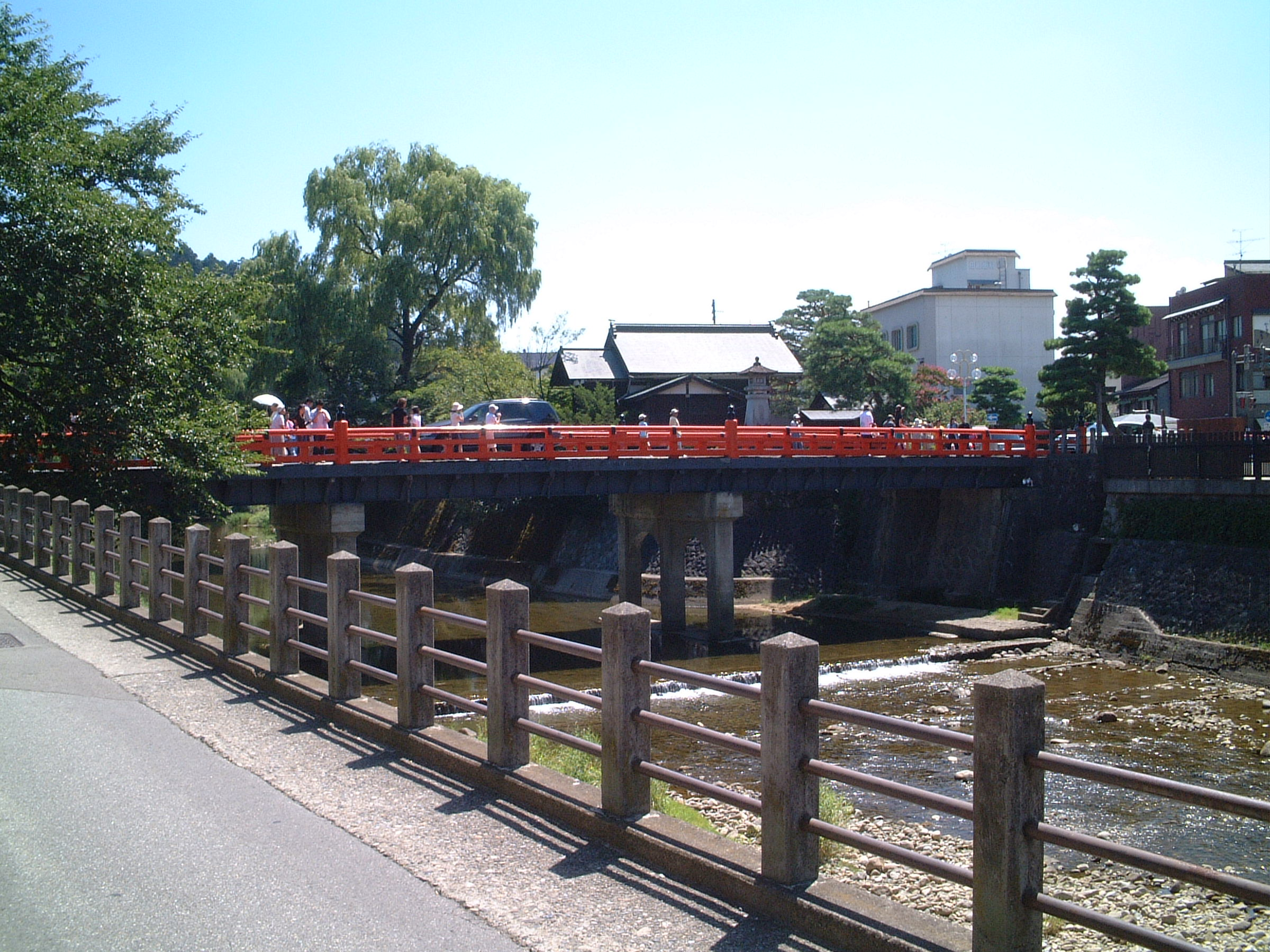 Nakabashi bridge over Miyagawa river at Takayama city, Gifu prefecture, Japan.